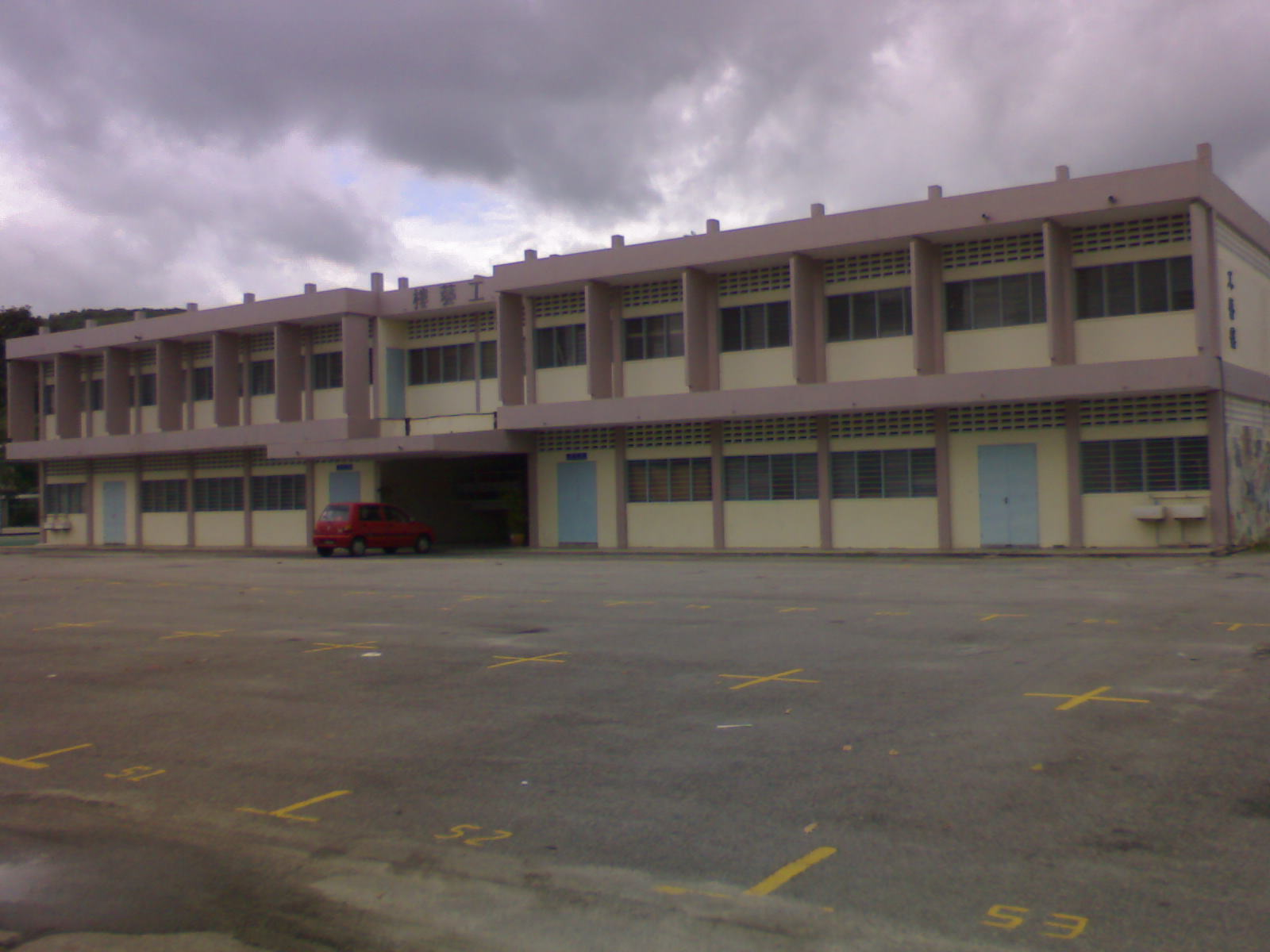 This is the building housing the living skills workshops in Chung Ling (National Type) High School.